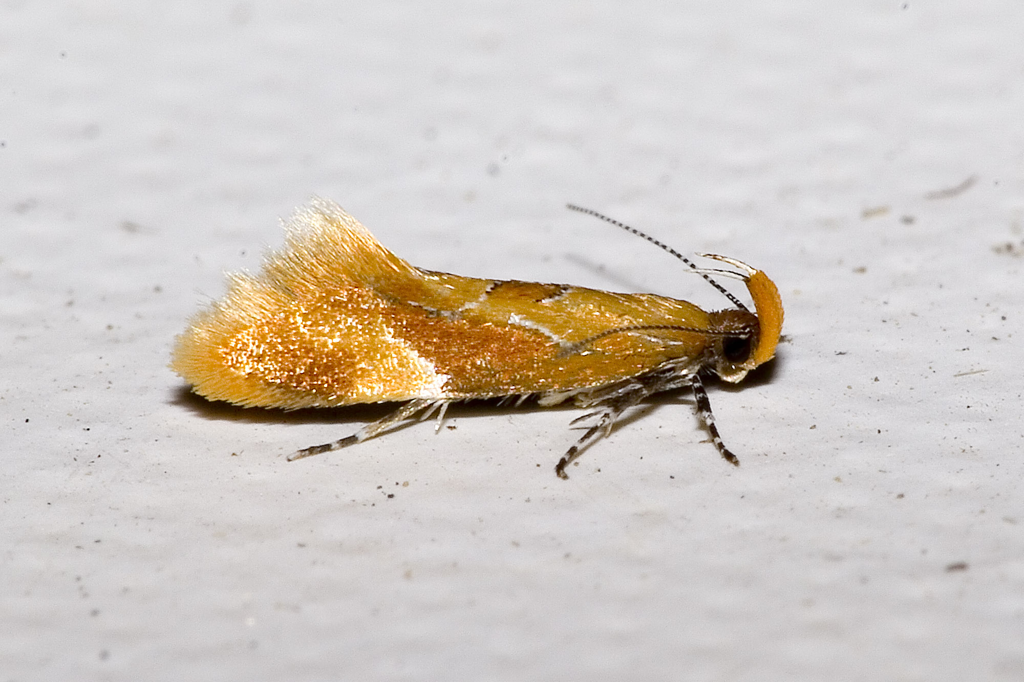 Epicallima formosella (Denis & Schiffermüller, 1775) Location: Dresden, Pohrsdorfer Weg (Saxony, Germany) 5/180L f22 Film / Speed: ISO 100 Comment: Canon Flash 580EX